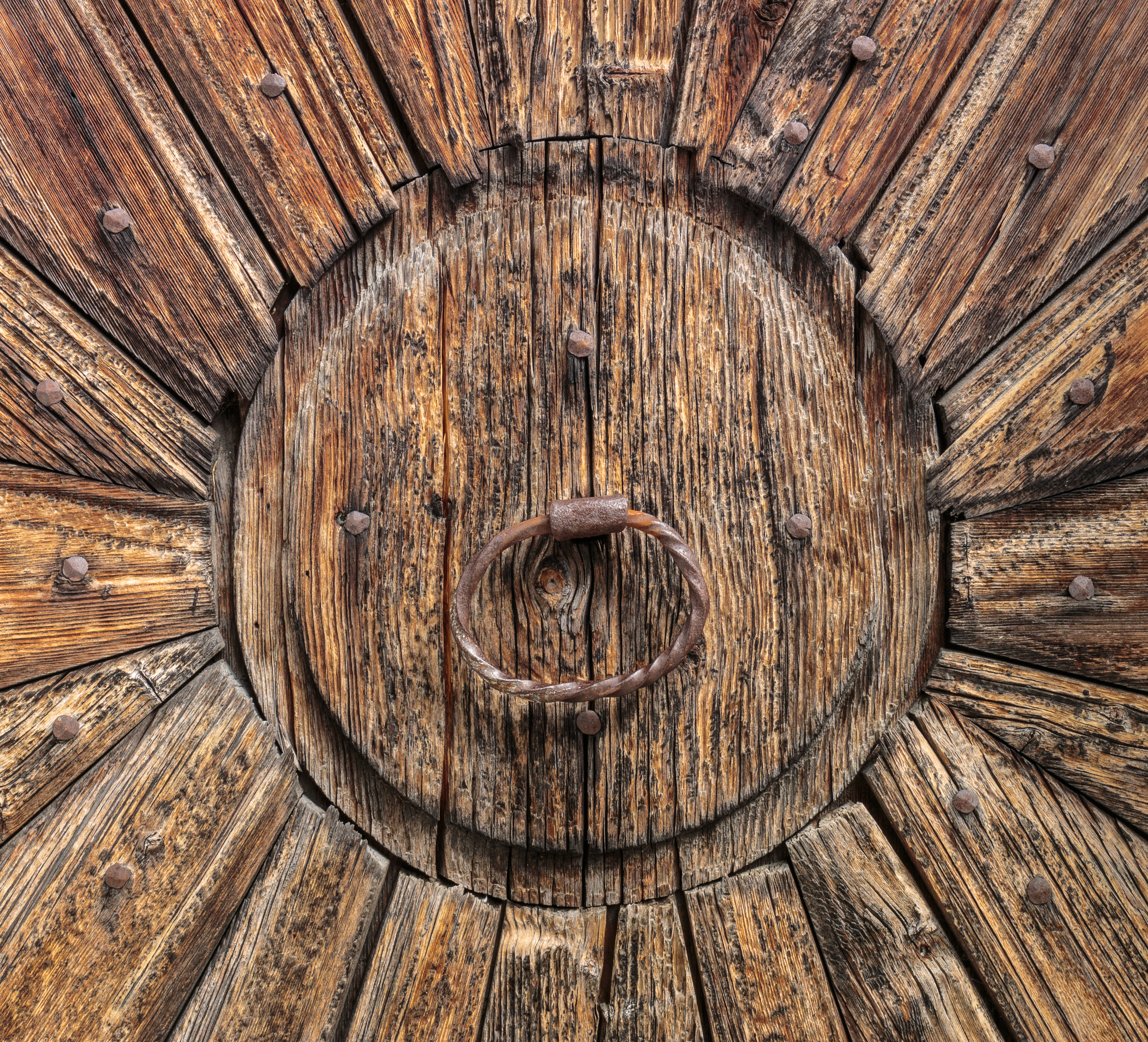 Kapelle St. Martin-Caplutta Sogn Martin. Breil-Brigels. Wooden main door of the chapel. (Detail).